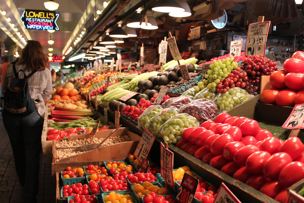 Inside Pike Place Market